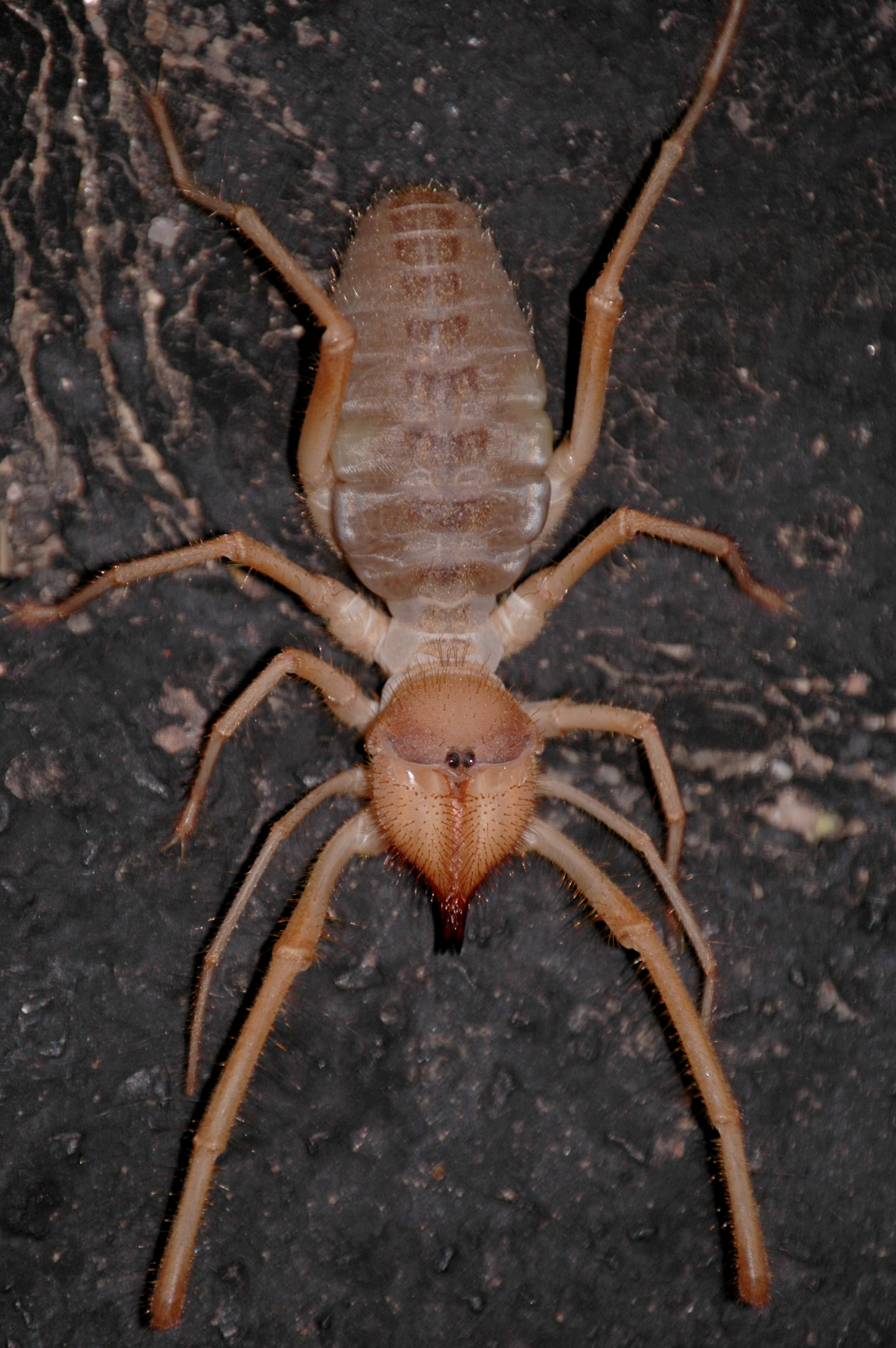 Sun spider/wind scorpion. Just over 3 inches long (including legs). 9.10.06, Mesa, Az.